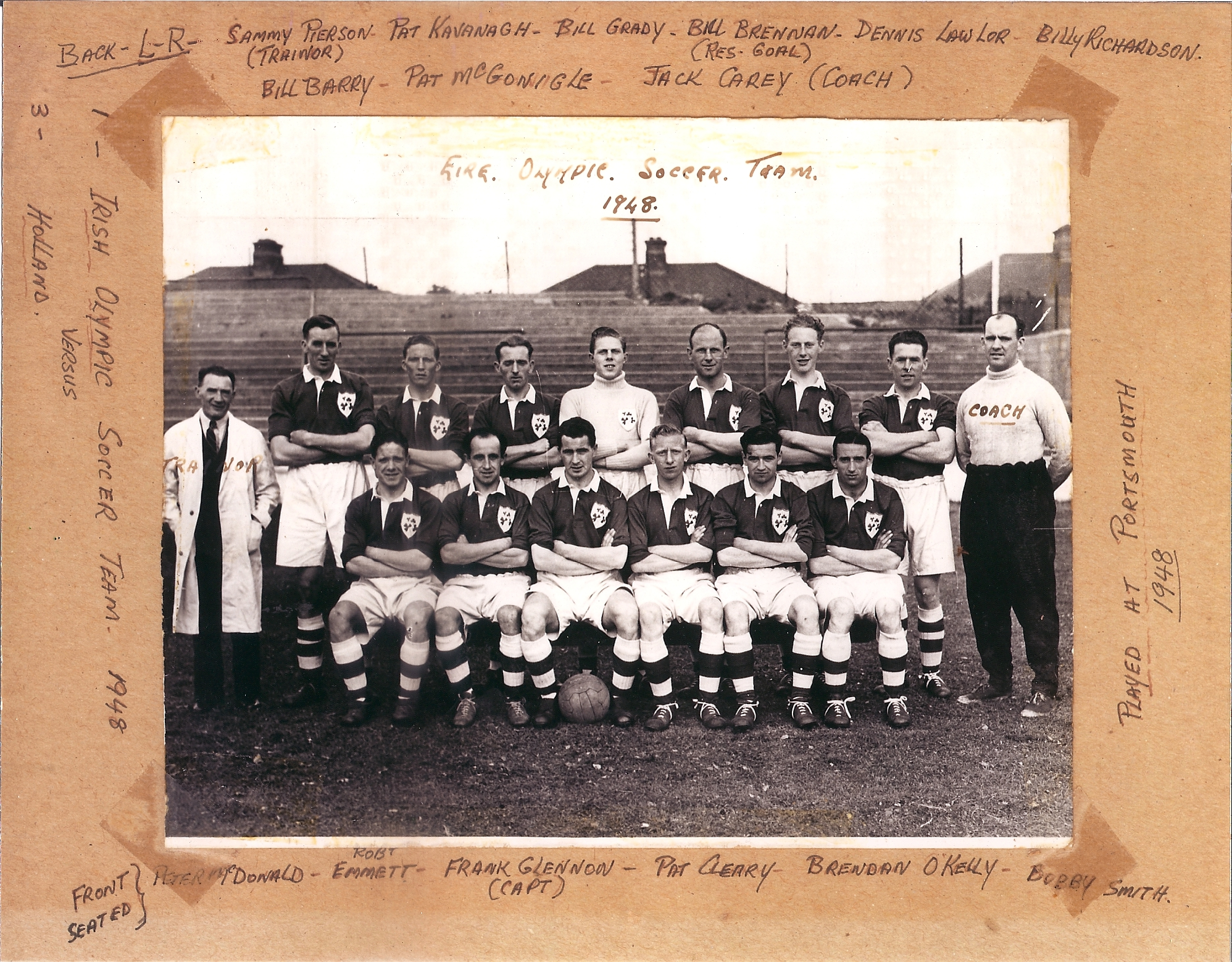 Photo of 1948 Ireland (Erie) Olympic Soccer (Football) Team